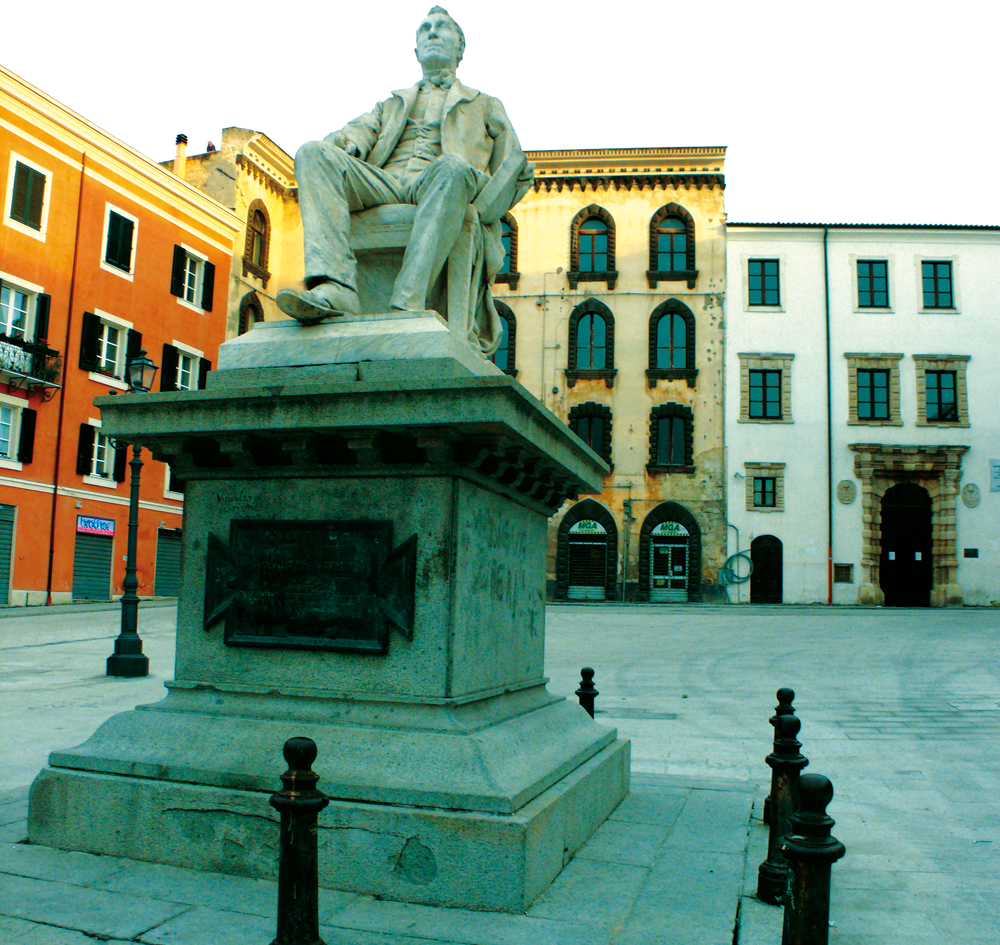 Tola's square in the historical city centre of Sassari, Sardinia